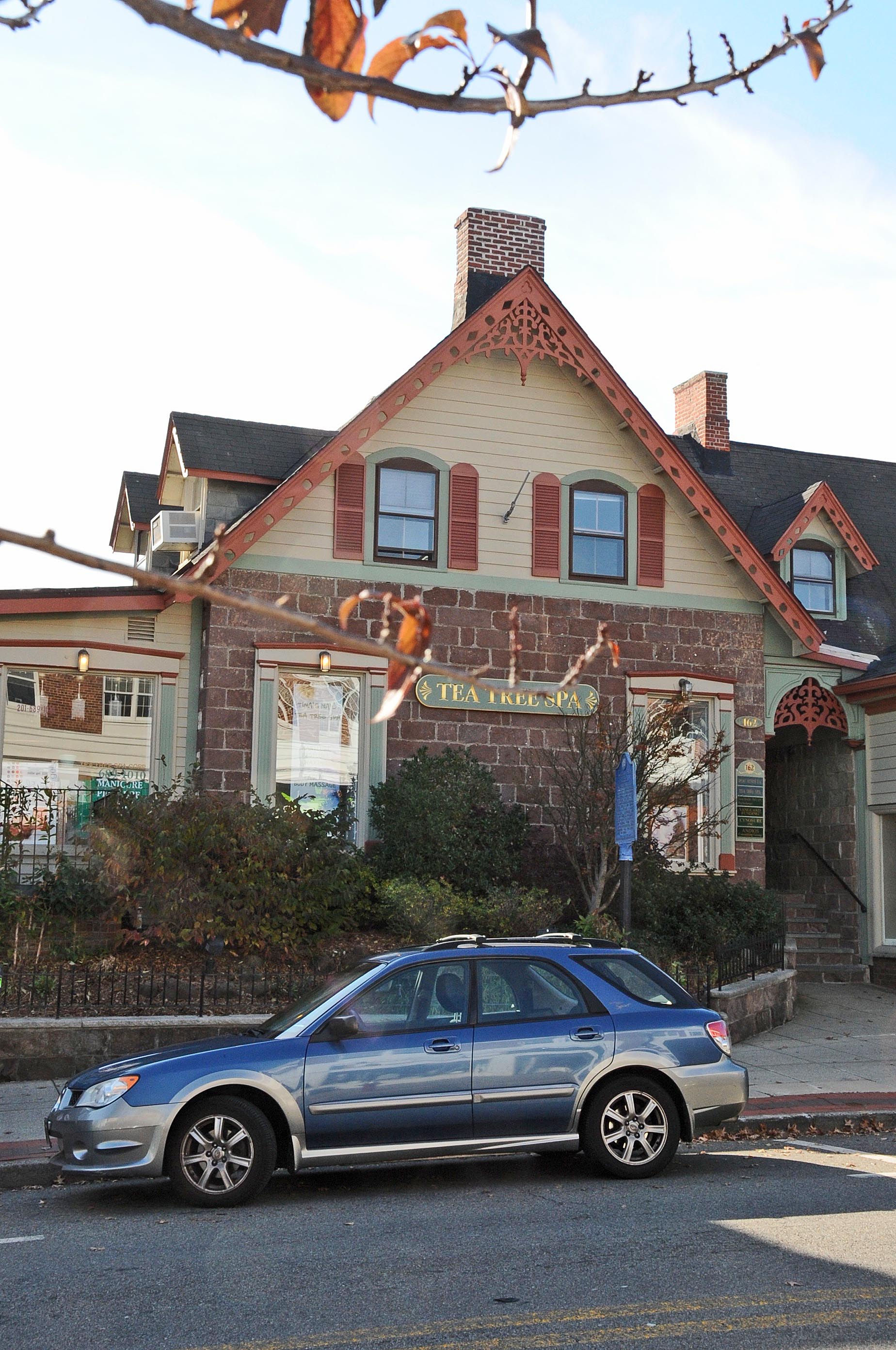 BUILT IN 1789 BY JOHN ARCHIBALD ON A 20 ACRE FARM; LATER PETER HOPPER OPENED THE FIRST STORE IN THE 1830’S. WILLIAM VROOM, A NOTED PHYSICIAN, PURCHASED THE HOUSE IN 1892 AND STARTED RIDGEWOOD’S FIRST HOSPITAL. IT IS NOW KNOWN AS TEA TREE SPA